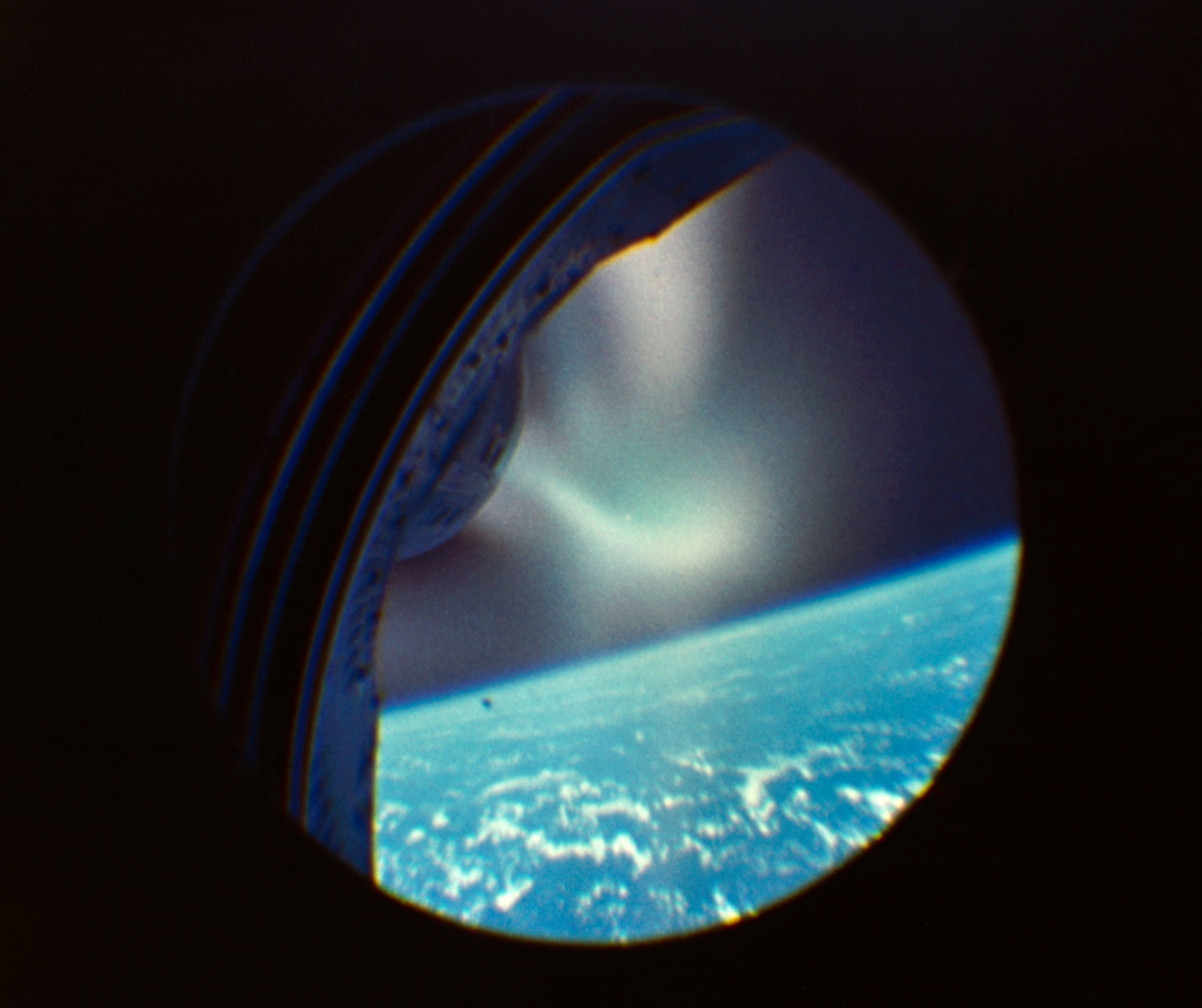 This photograph is an enlargement of a frame from a 16mm motion picture film which was mounted within the Gemini 2 spacecraft to take film through the hatch window. This scene shows the spacecraft during reentry.